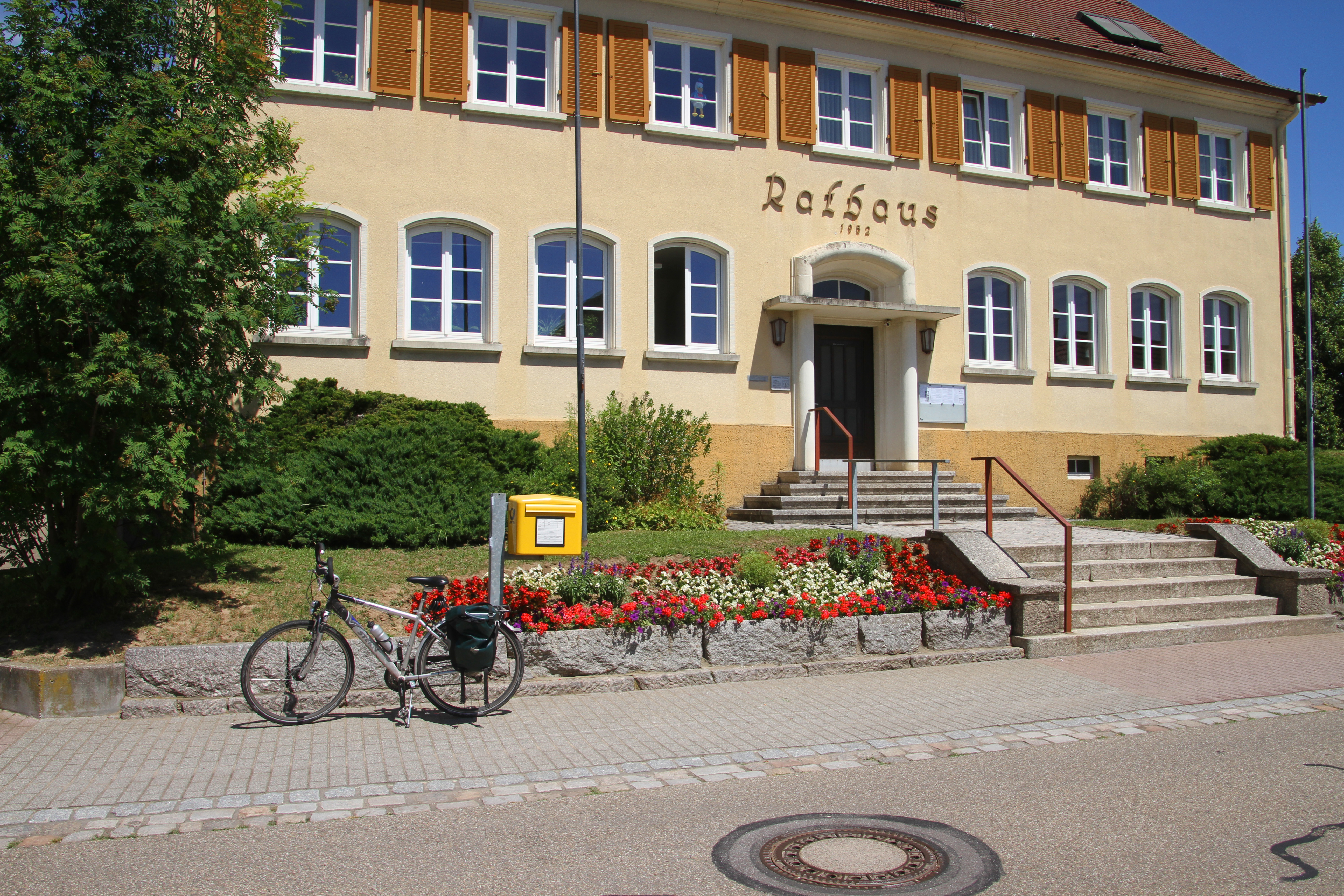 City hall in Achern-Sasbachried.